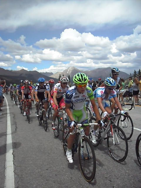 Juraj Sagan at the top of Monarch Pass in the USA Pro Cycling Challenge 23 Aug 2011